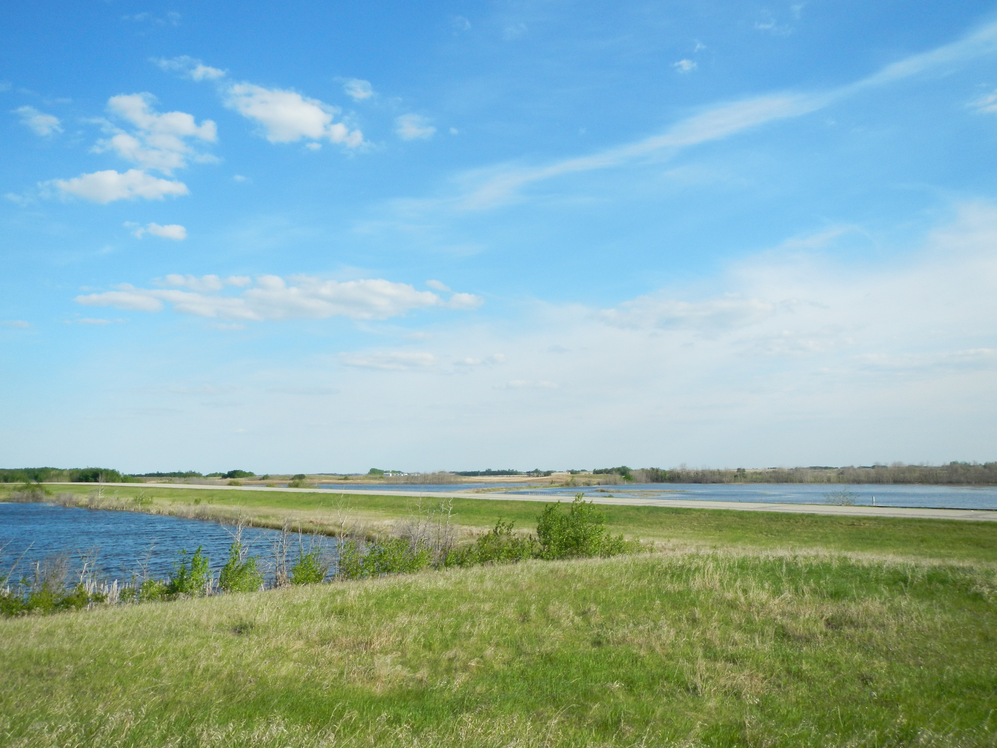 Viscount No. 341, SK S0K, Canada